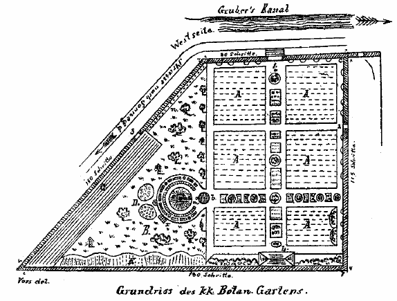 Wilhelm Voss's ground plan of the Ljubljana Botanic Garden, 1885.